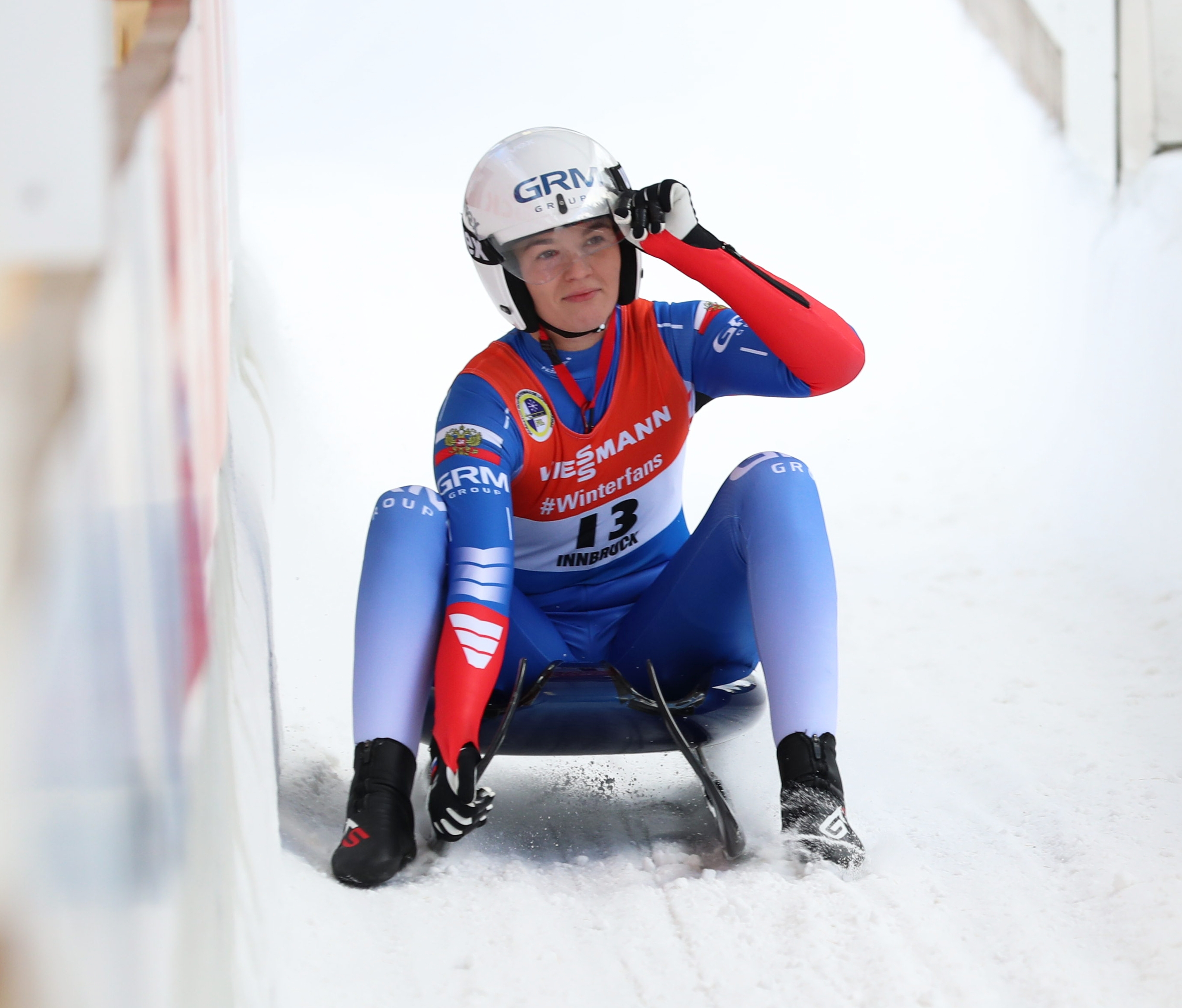 Women's World Cup race at the 2018/19 Luge World Cup in Innsbruck-Igls